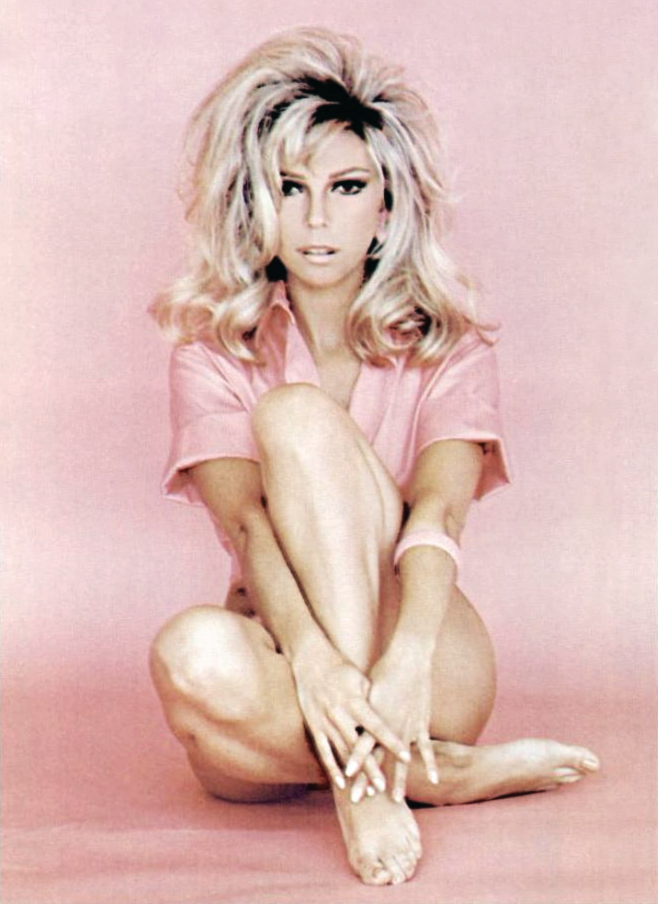 Trade ad for Nancy Sinatra's single "Hook and Ladder".To better adapt it to his respective Wikipedia article, the ad was cropped and cleaned in a graphics editing program. The original can be viewed at the source below.